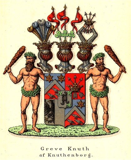 Coat of arms of the Knuth-Knuthenborg family